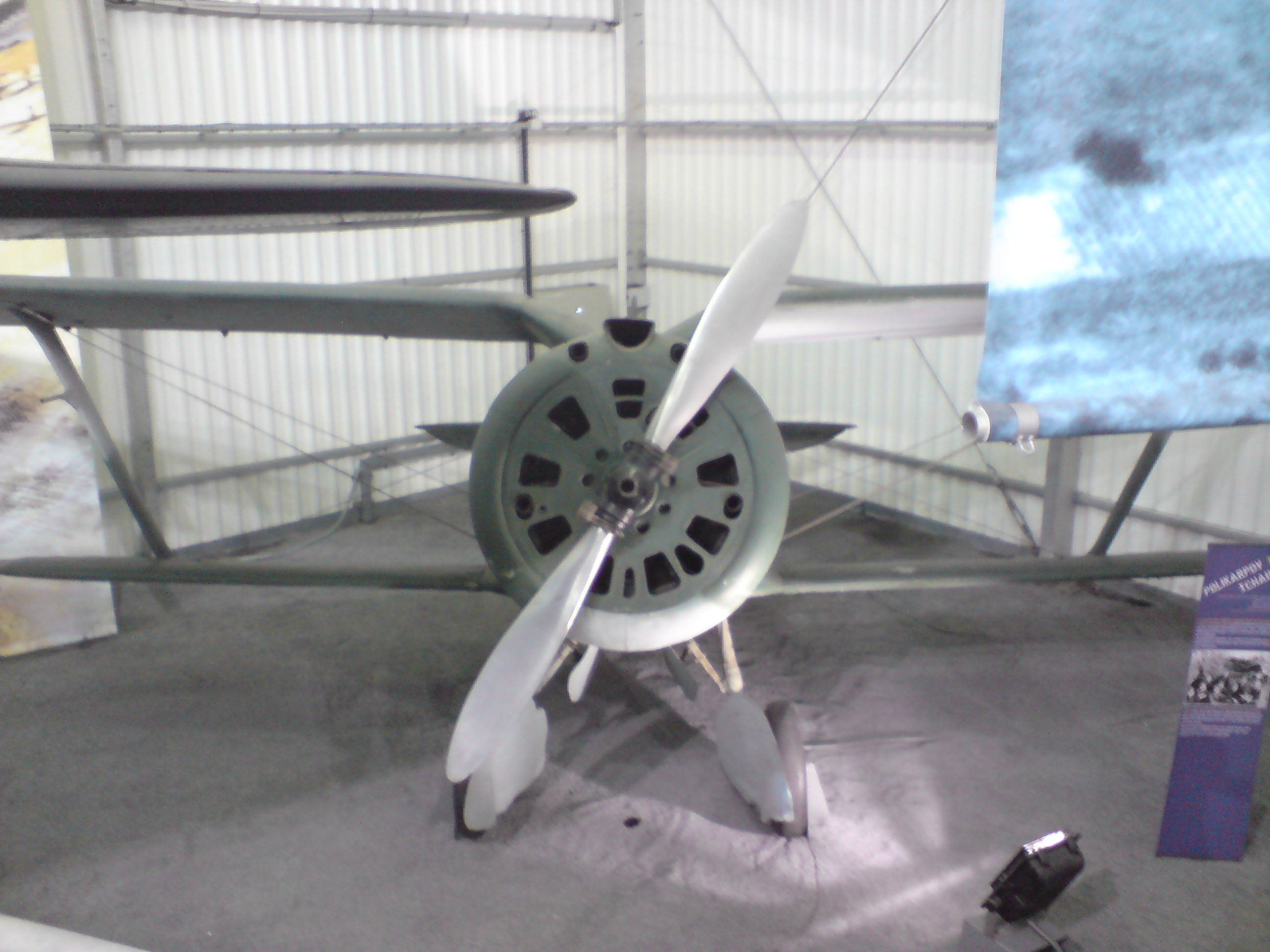 Polikarpov I-153 displayed in French Air and Space Museum.